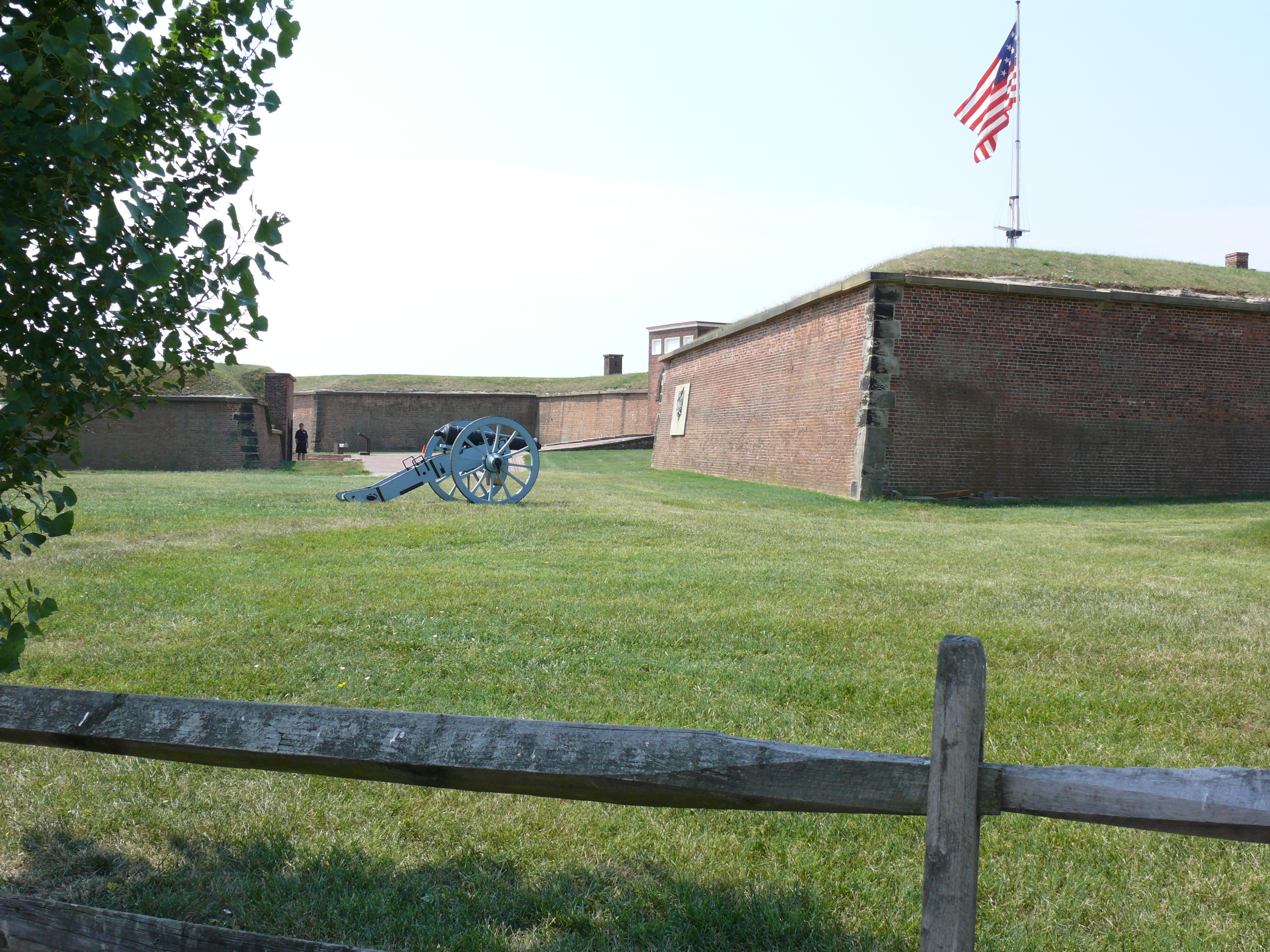 Outside Fort McHenry. Fort McHenry, in Baltimore, Maryland, is a star shaped fort best known for its role in the War of 1812 when it successfully defended Baltimore Harbor from an attack by the British navy in the Chesapeake Bay. It was during this bombardment of the fort that Francis Scott Key was inspired to write The Star-Spangled Banner, the poem that would eventually be turned into the national anthem of the United States, set to the tune of a British song To Anacreon in Heaven. Also Francis Scott Key was captive on a British ship during the bombing.